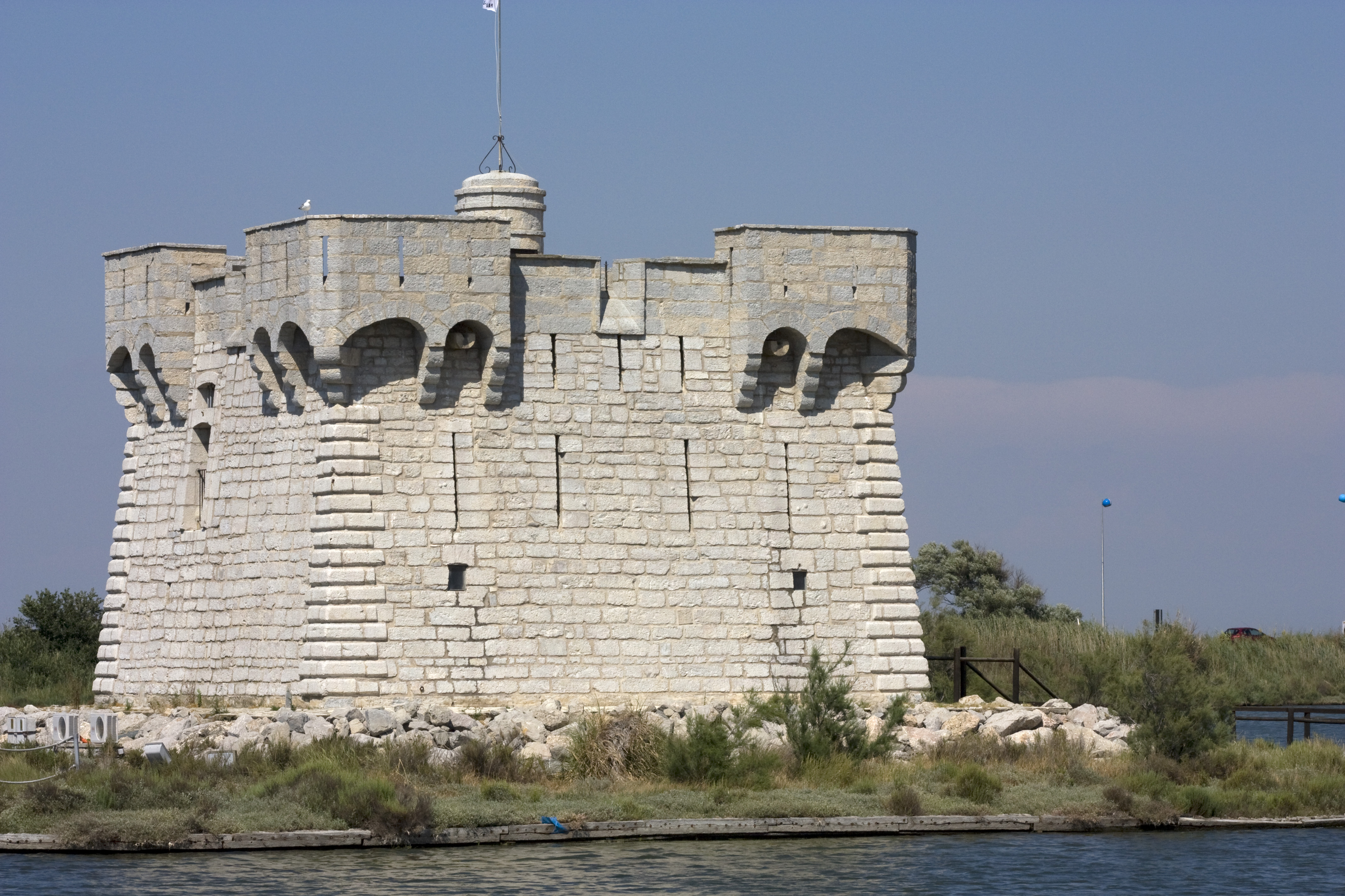 The Redoubt of Ballestras was moved to a lagoon isolated from the Pond of the Greek by the departemental road D62E2. It houses now a Museum devoted to designer Dubout